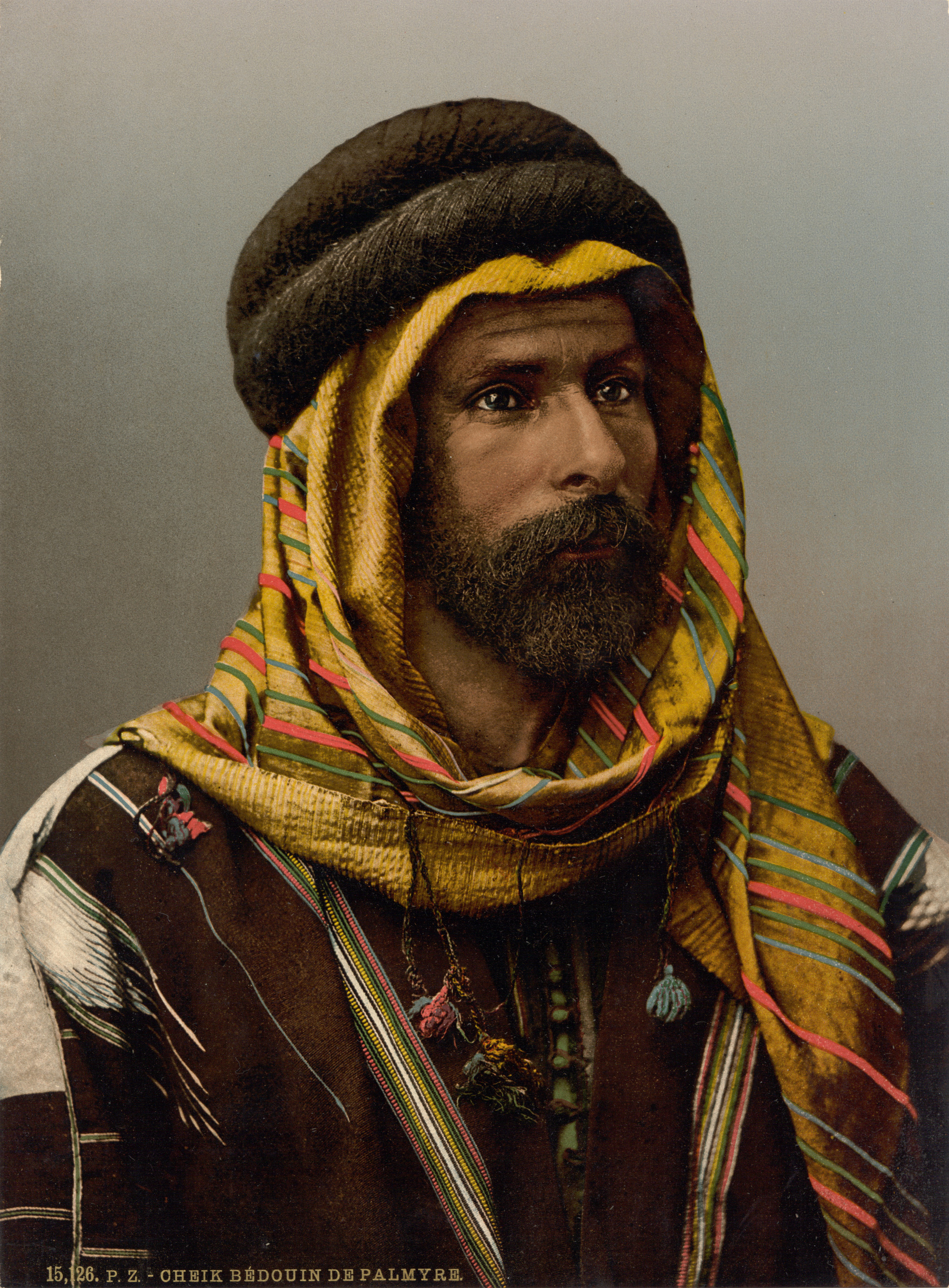 Bedouin Sheikh of Palmyra, Holy Land (i.e., Tadmur, Syria). 1 photomechanical print : photochrom, color.